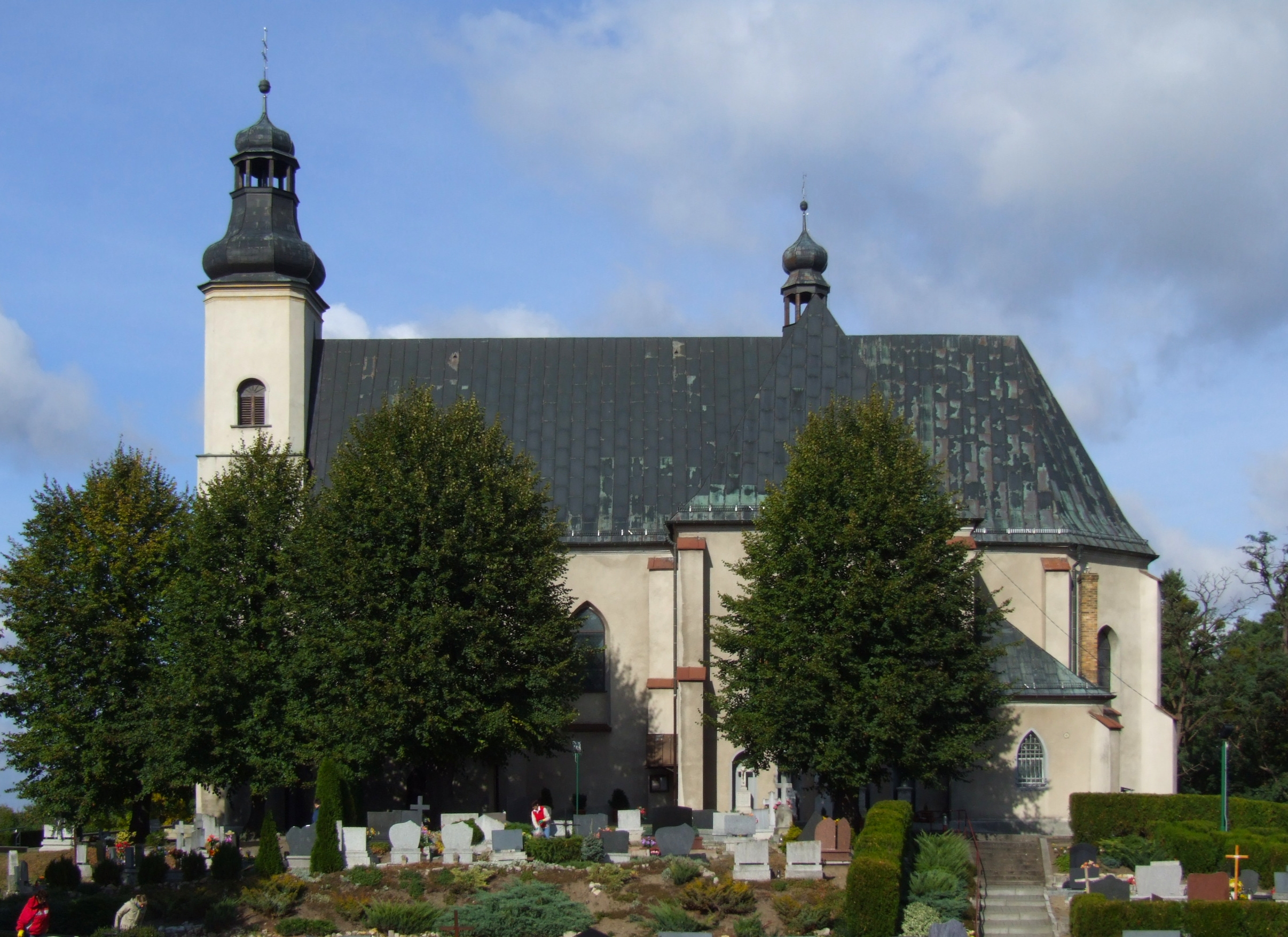 Church in Szymiszów (Schimischow, 1936-45 Heuerstein O.S.), Upper Silesia